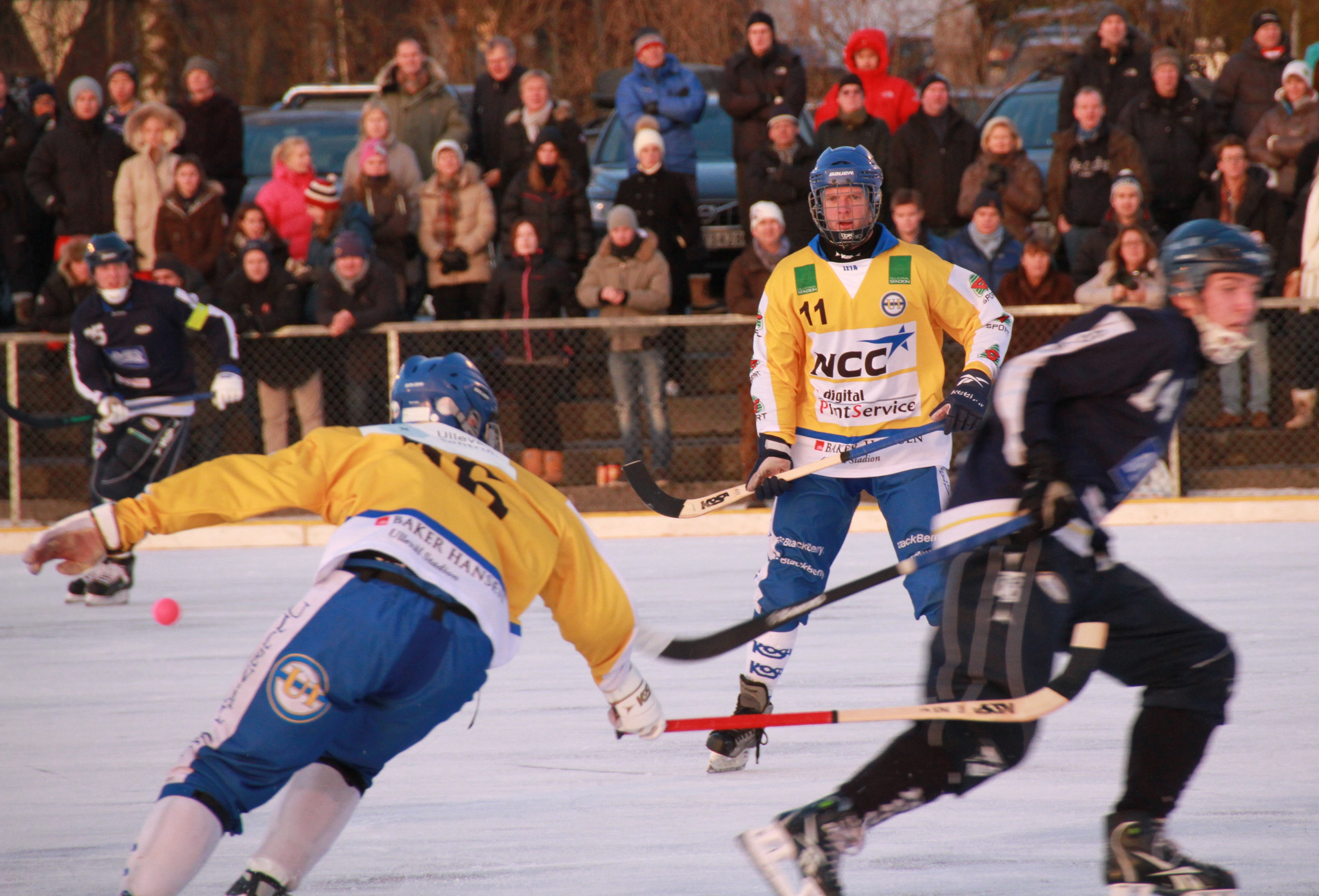 Bandy player representing the club Ullevaal Bandy (Oslo). Photo from December 26, 2011 match between Ready and Ullevaal Bandy, at Gressbanen Arena, Oslo.